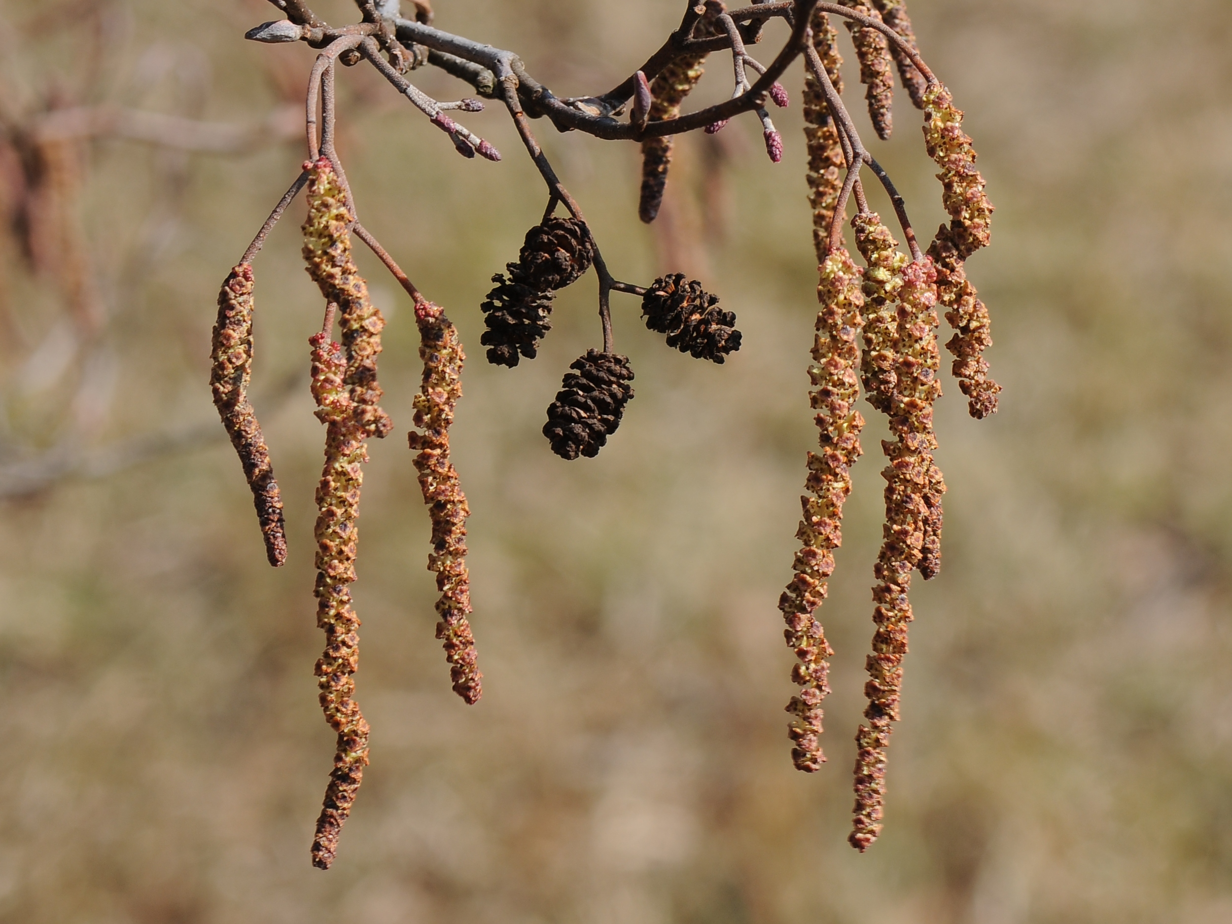 Alnus glutinosa (